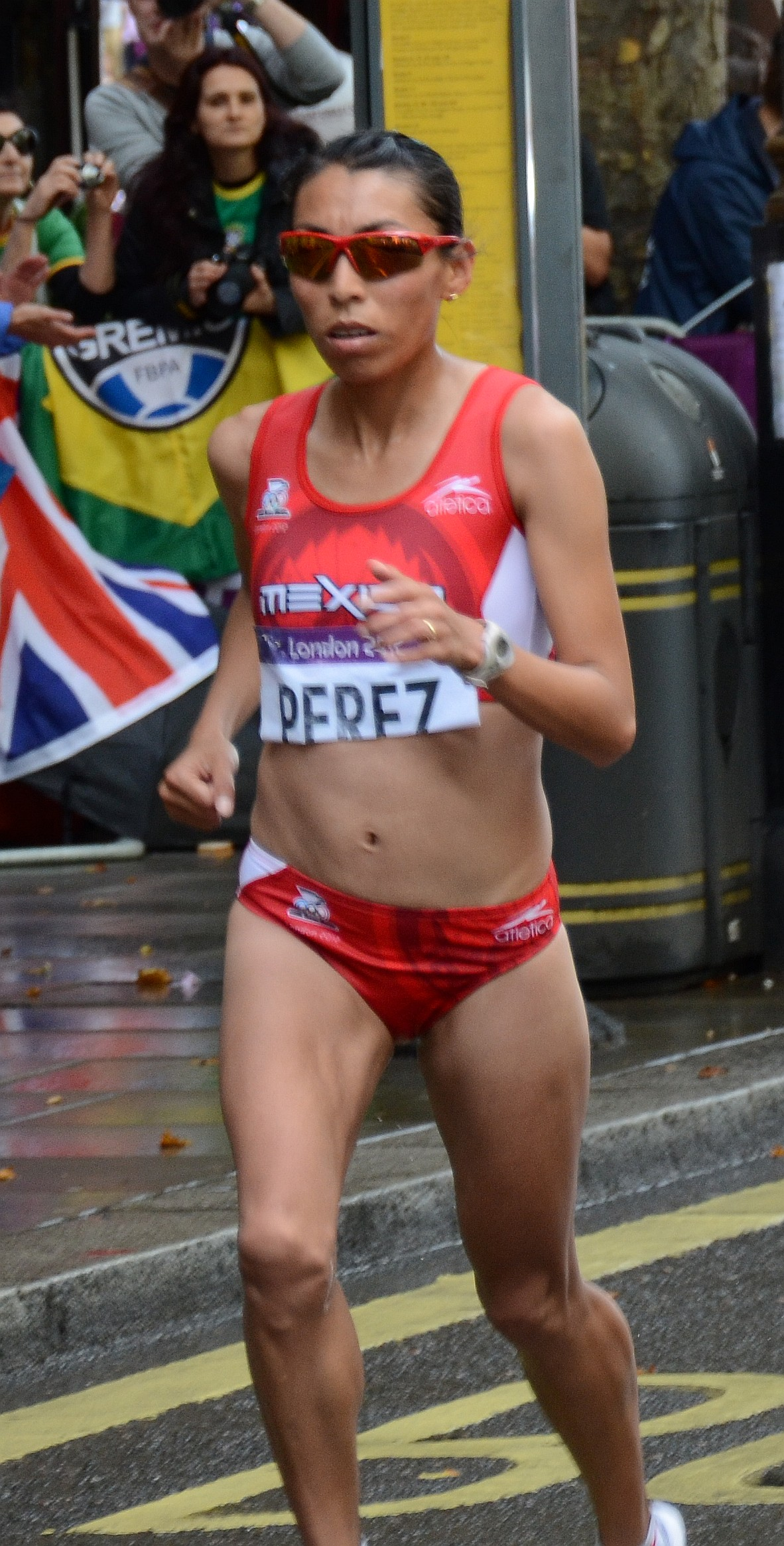 Karina Pérez (Mexico) in the marathon (w) at the Olympic Games 2012